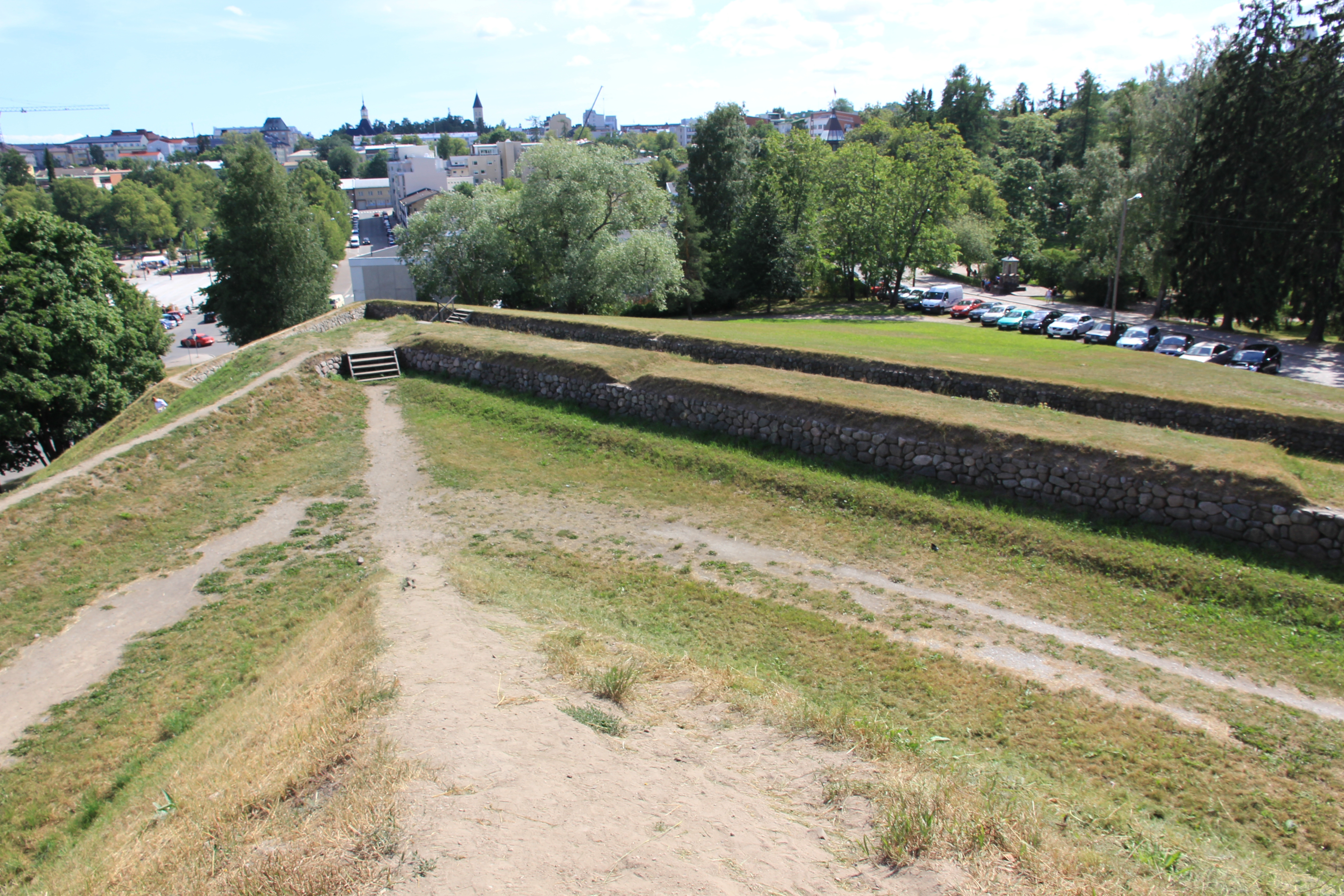 View down from the south east corner of the Lappeenranta fortress walls.